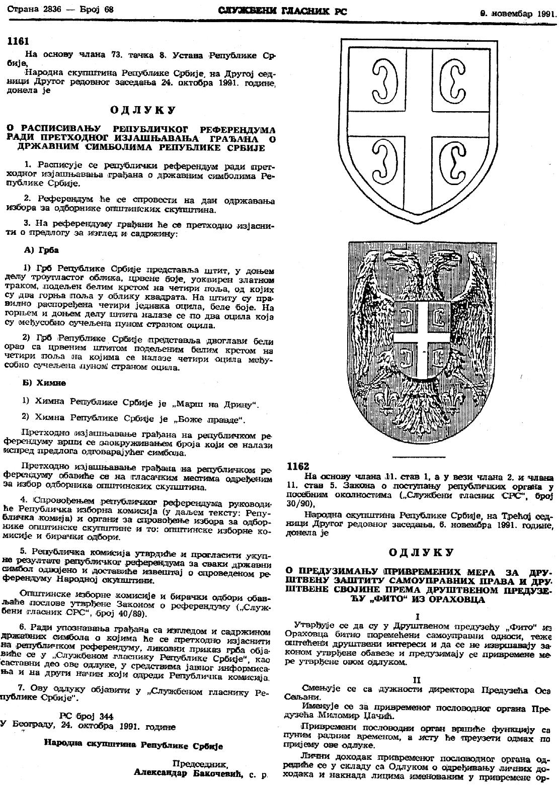 1991 referendum, article about state symbols of the Republic of Serbia. Scanned page of Službeni glasnik RS, 68, Republic of Serbia, November 9, 1991, page 2836